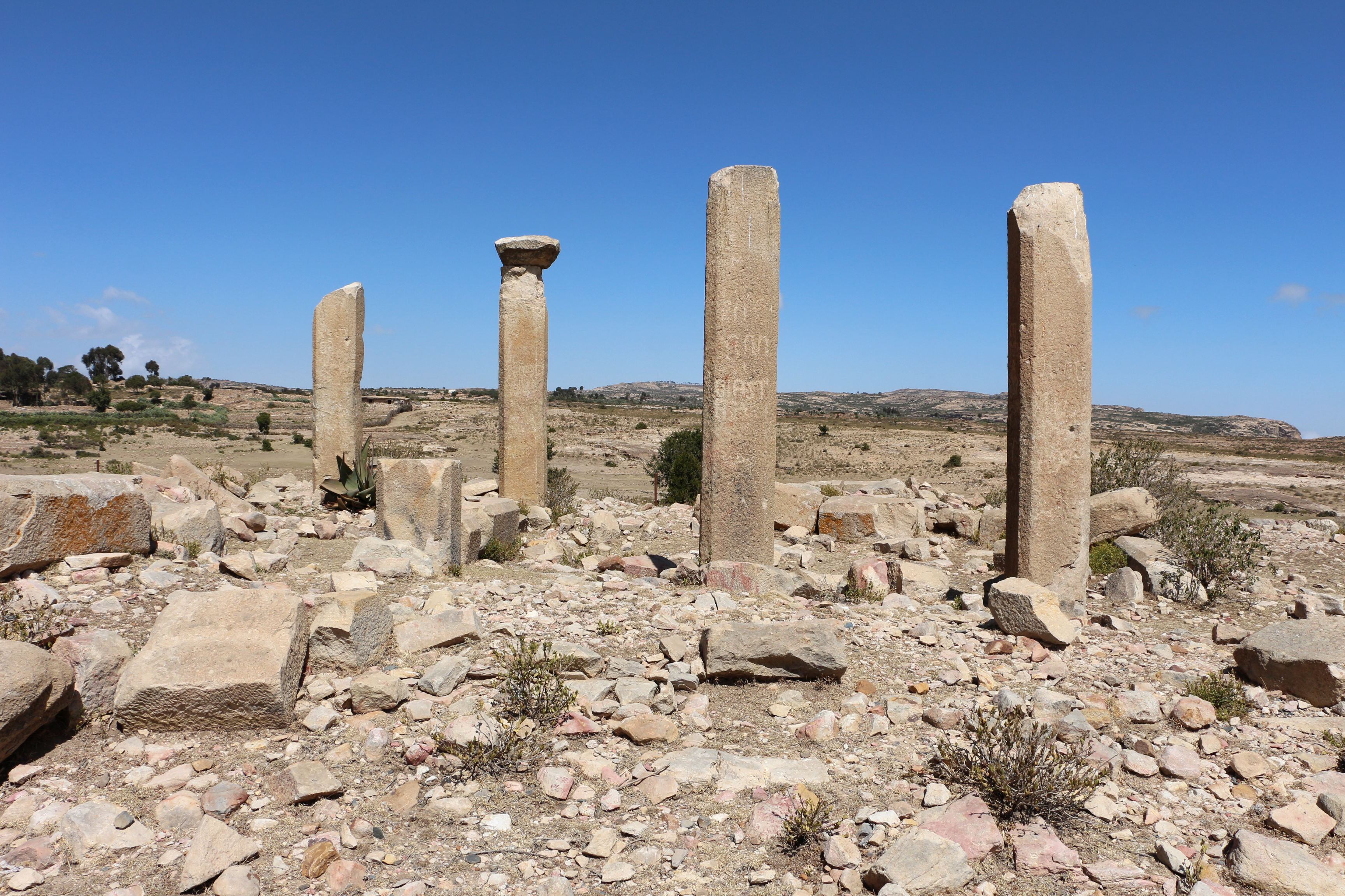 Qohaito